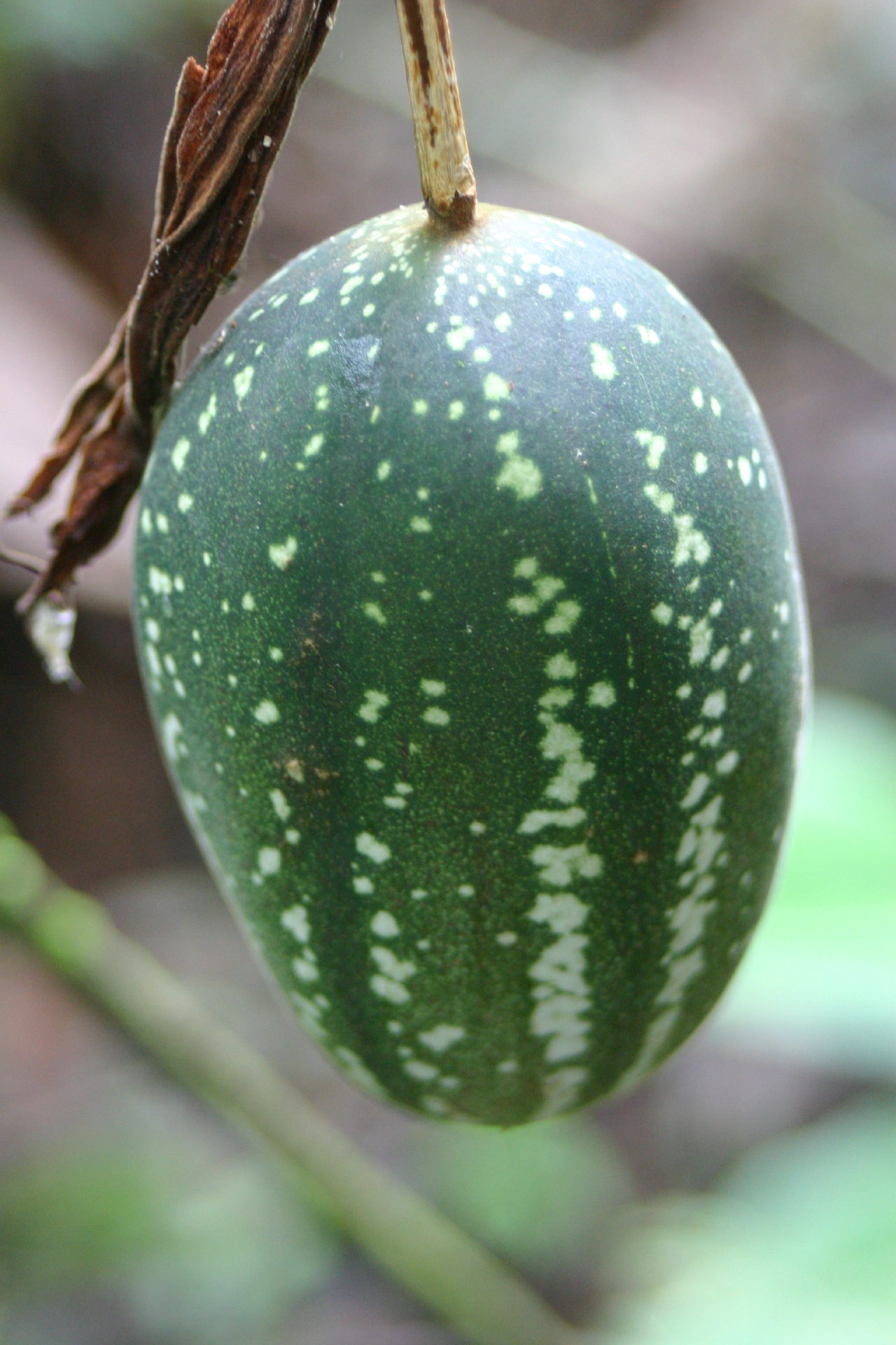 Found this stunning vine growing in the underbrush near a trail at La Selva. We found the fruits fu Found this stunning vine growing in the underbrush near a trail at La Selva. We found the fruits first, oddly enough, and only located the large, brightly colored flowers after much searching.